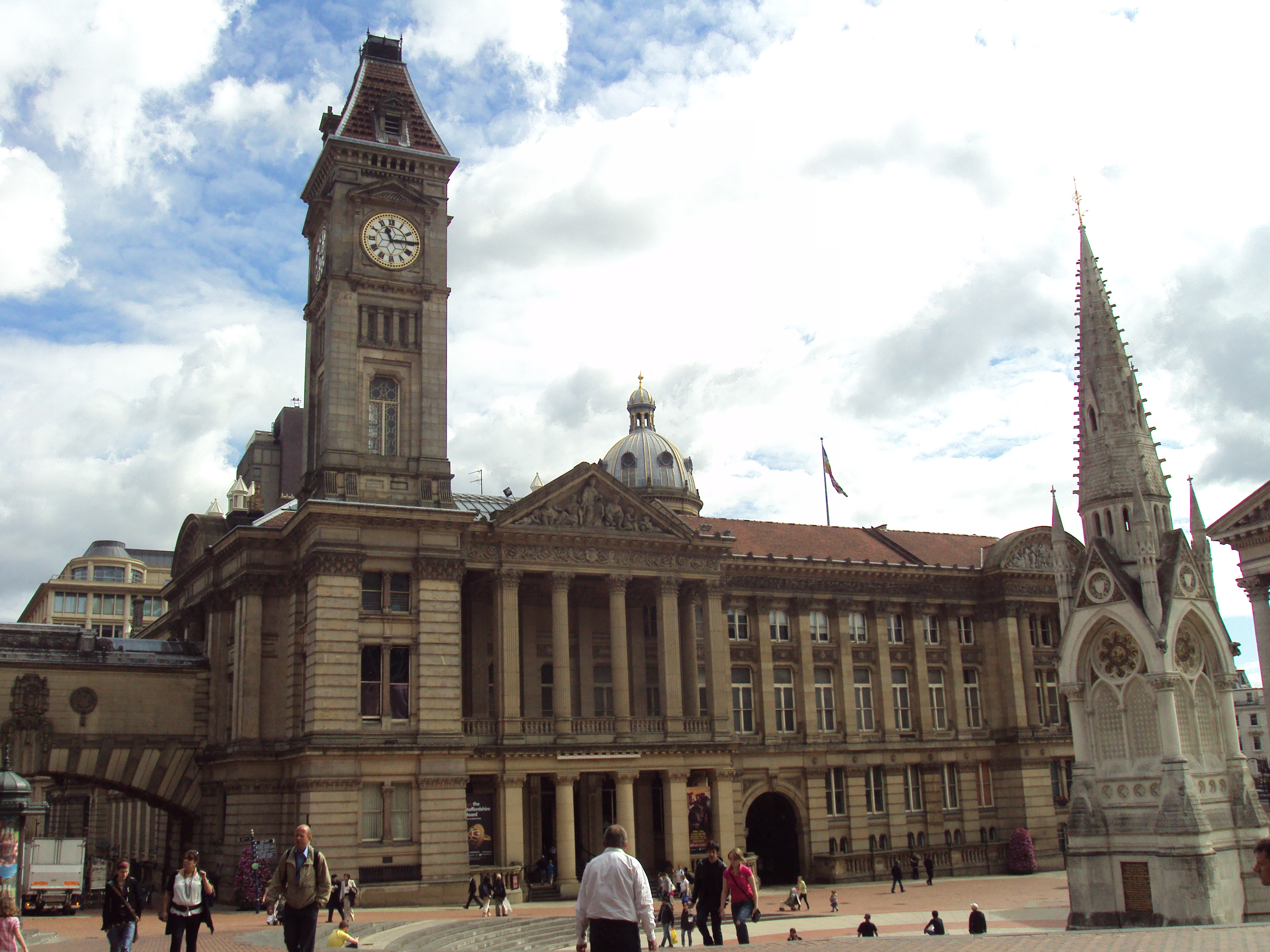 Big Brum clock tower and the Chamberlain Memorial at Chamberlain Square, Birmingham, England.